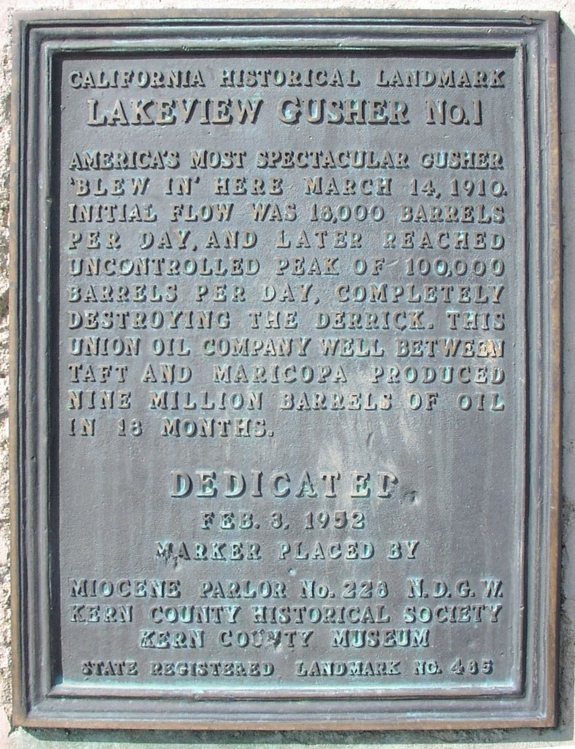 Photo of Lakeview Gusher memorial plaque; PD-self; photo taken by User:Antandrus on March 8, 2008